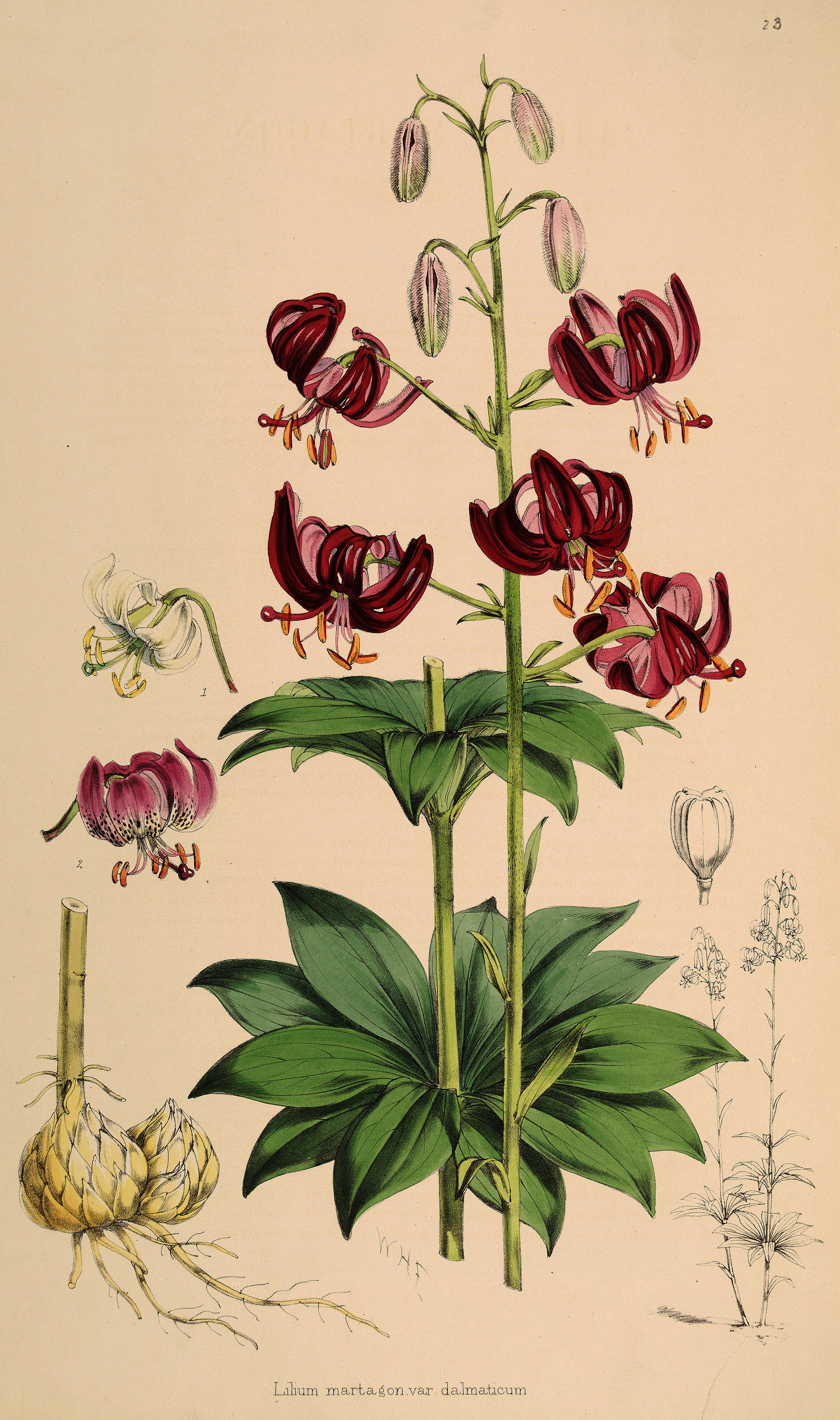 Lilum martagon var dalmaticum 1877 plate 32 Henry John Elwes Monography of the genus Lilium